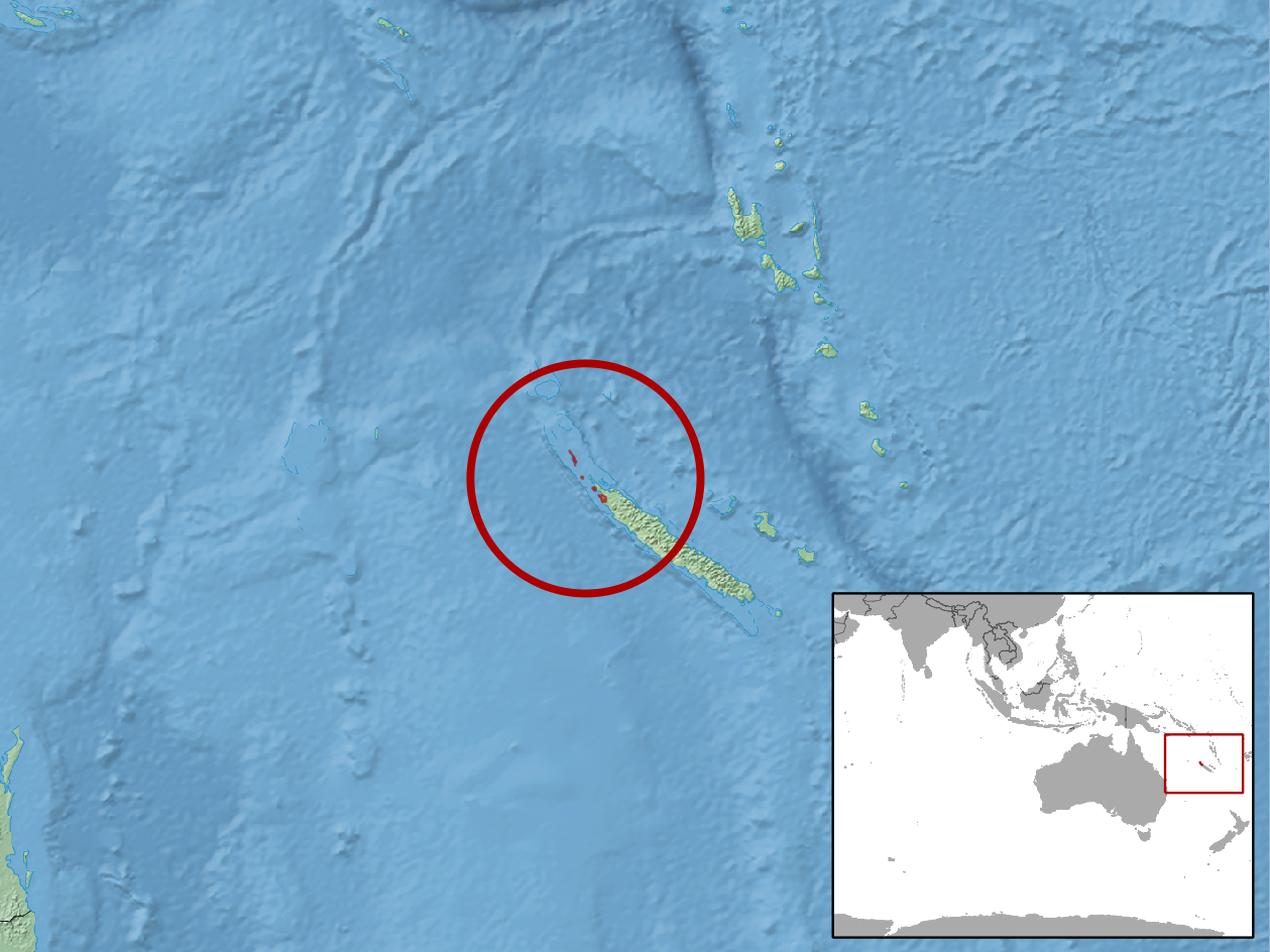 geographic distribution of Kanakysaurus viviparus